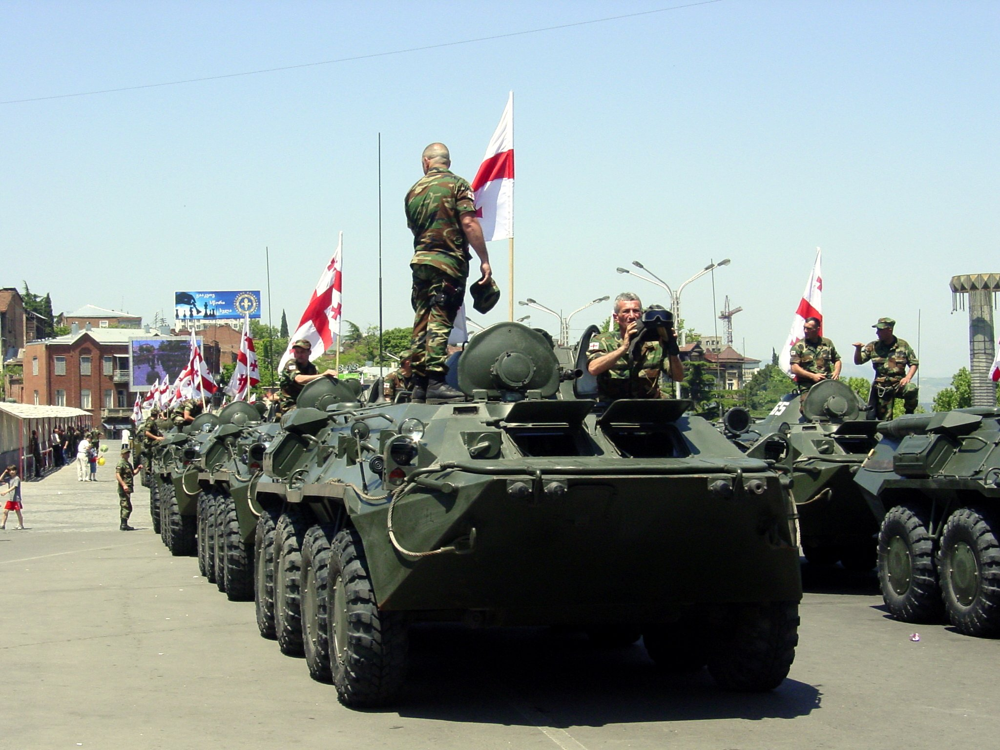 Georgian BTR-80 on the Independence day celebration, May 26th, 2006.